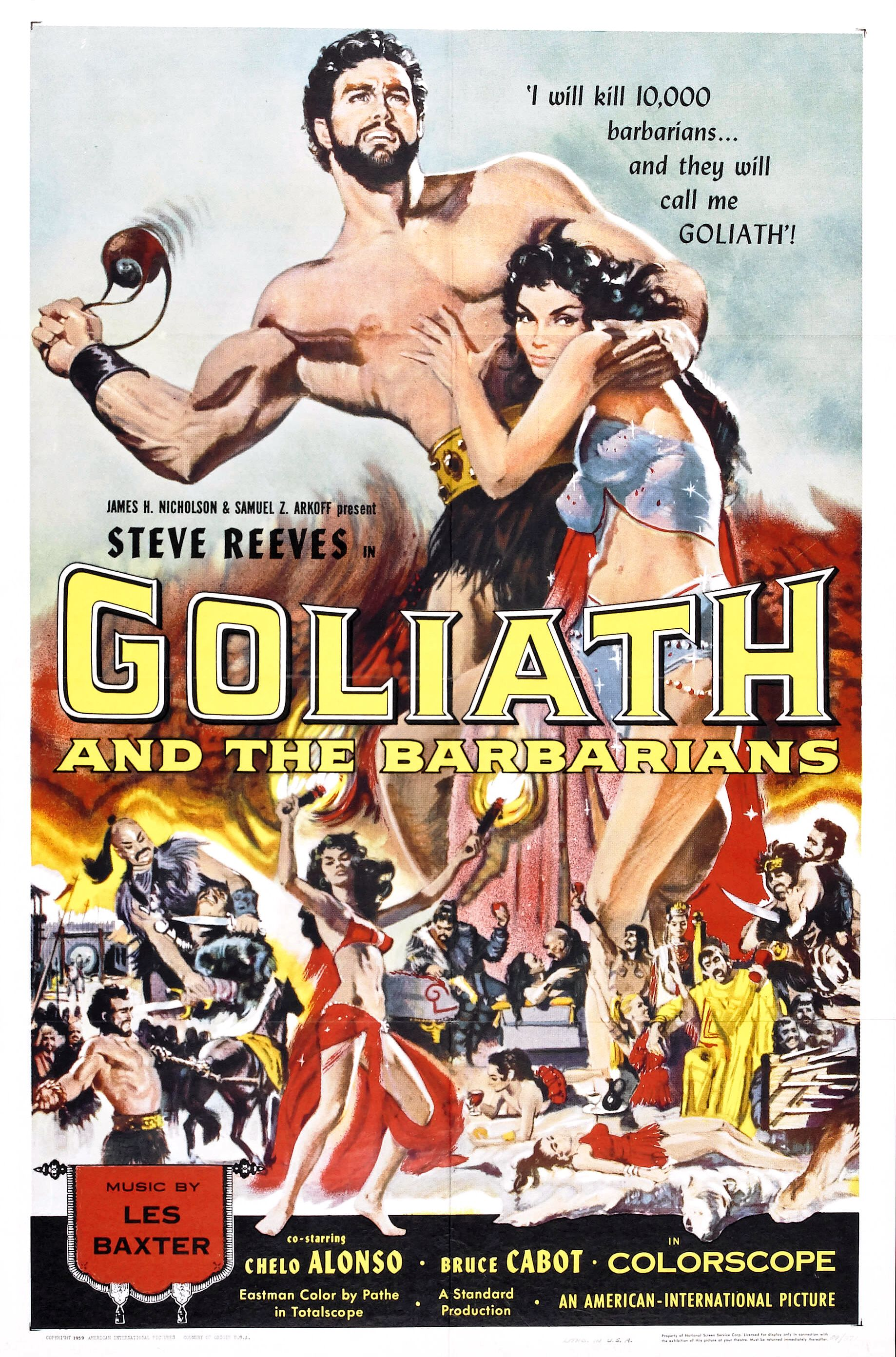 Advertising poster for the film Goliath and the Barbarians (1959).